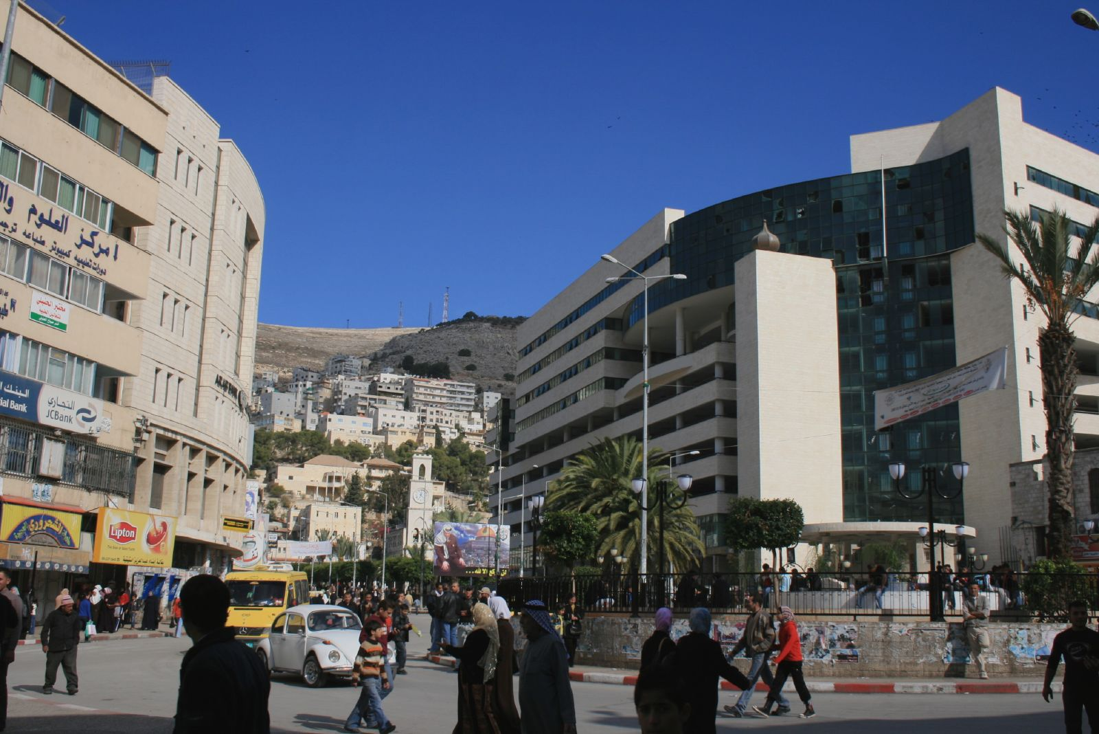 Nablus, Palestina